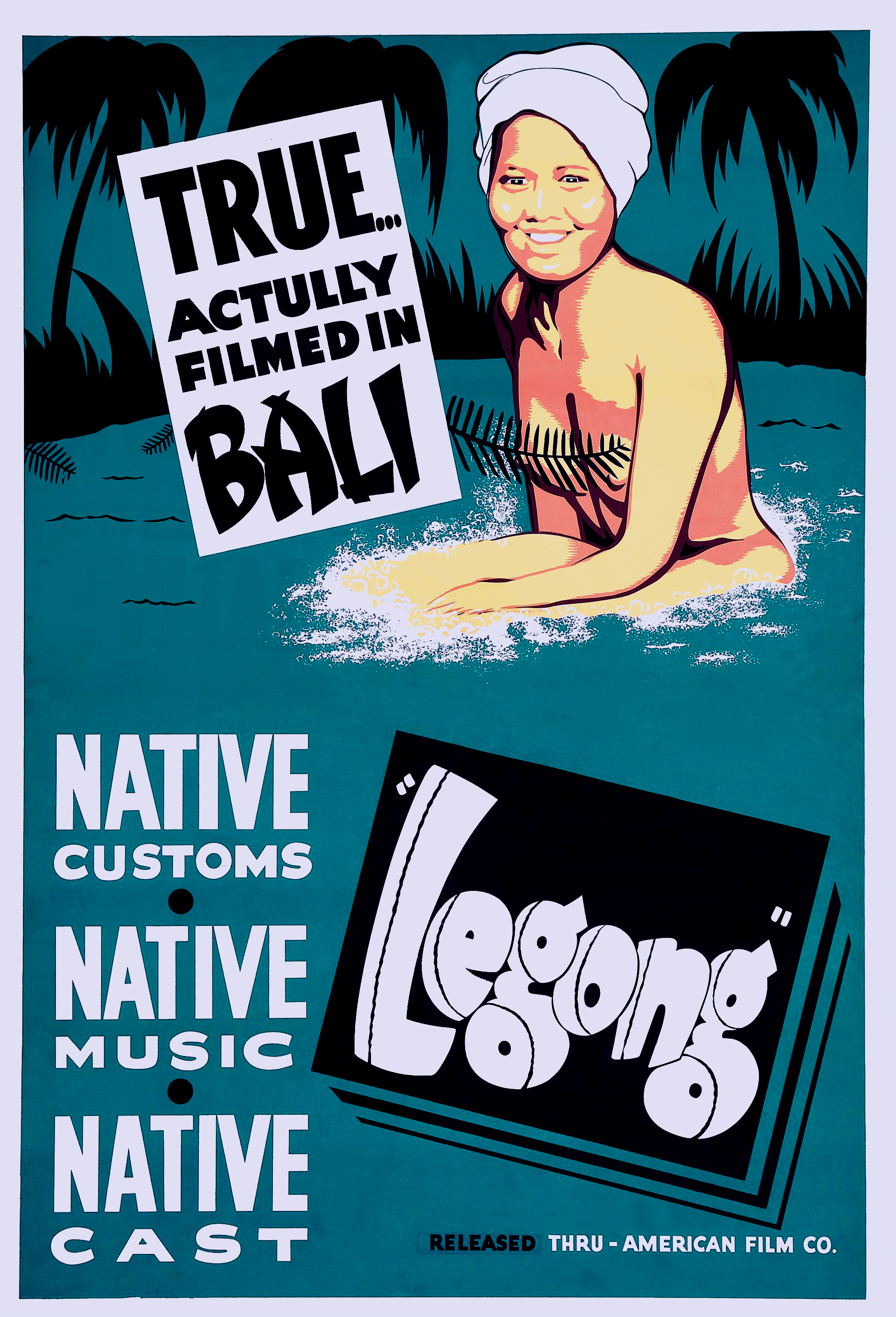 Poster for the American adventure film Legong (1935). There are no copyright marks on the item.